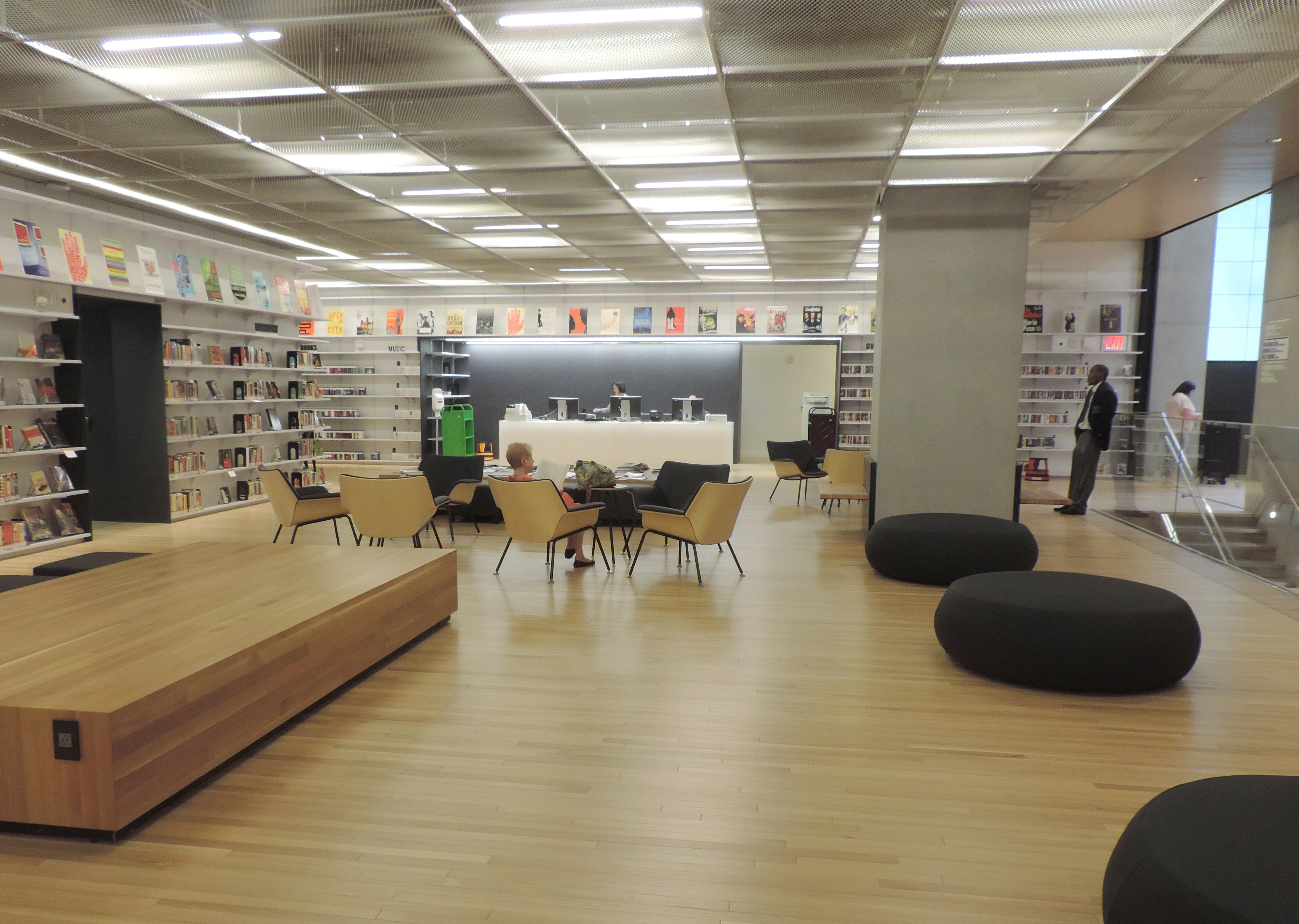 Looking north in reading room of new 53rd Street Library